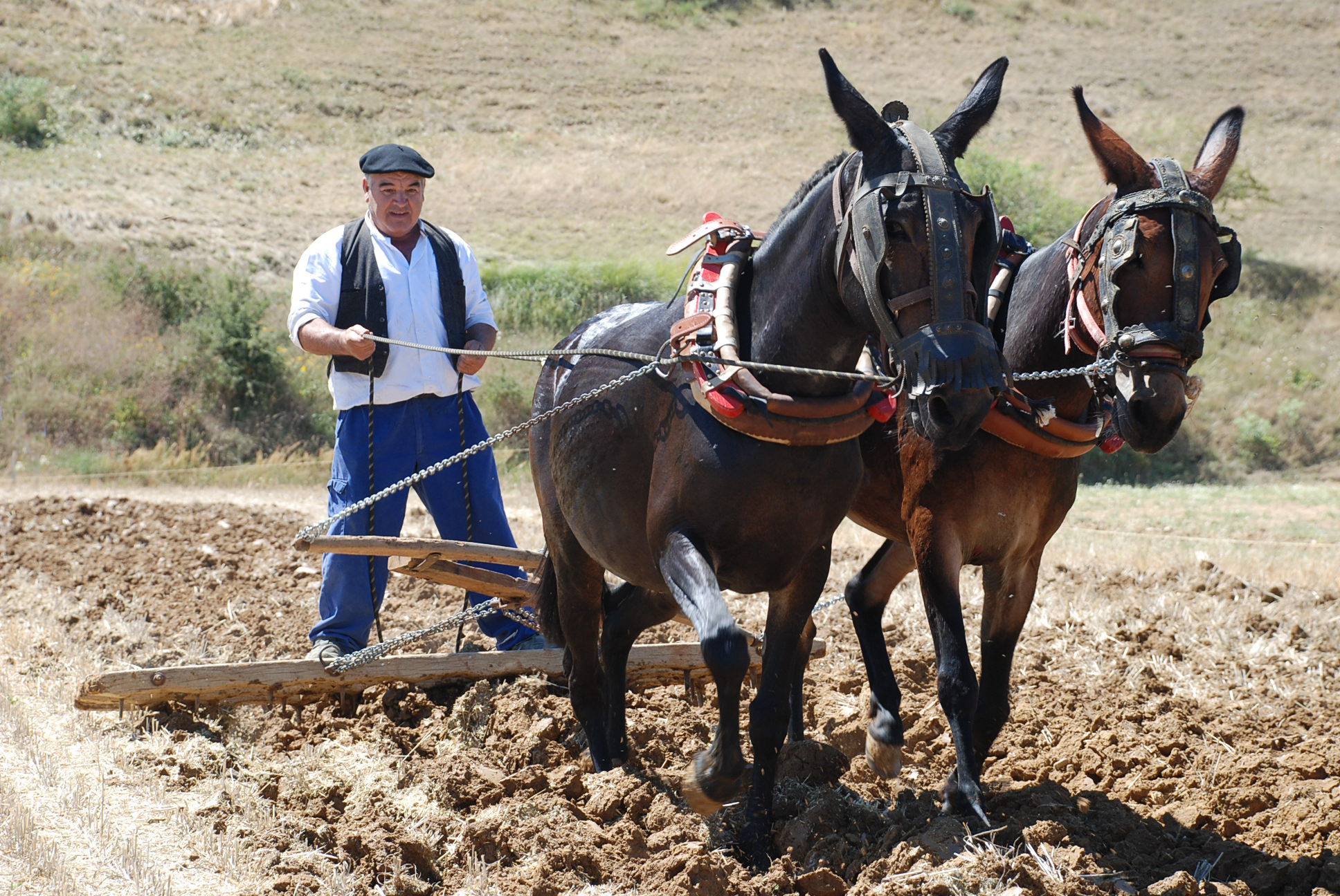 Harrowing with mules in the Festival of La Trilla of Castrillo de Villavega (Palencia, Castile and León).